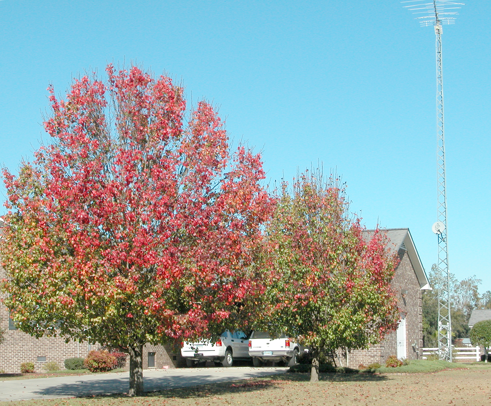 Pyrus calleryana - Picture from Wikipedia (en)